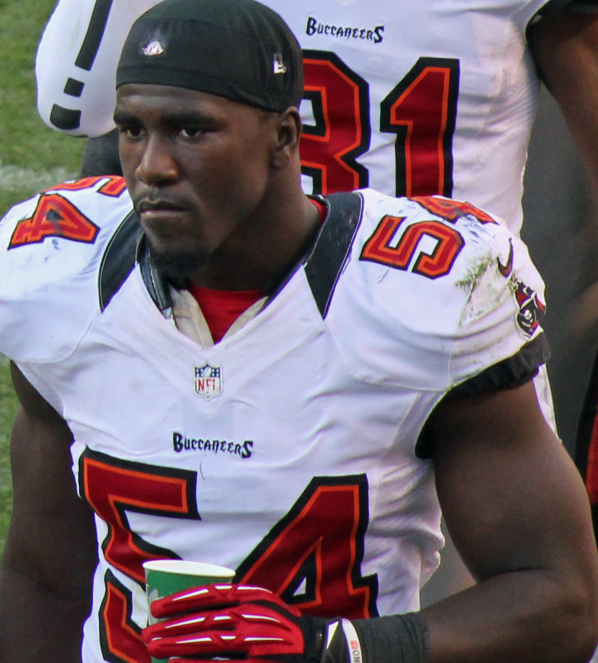 Lavonte David, a player on the National Football League.